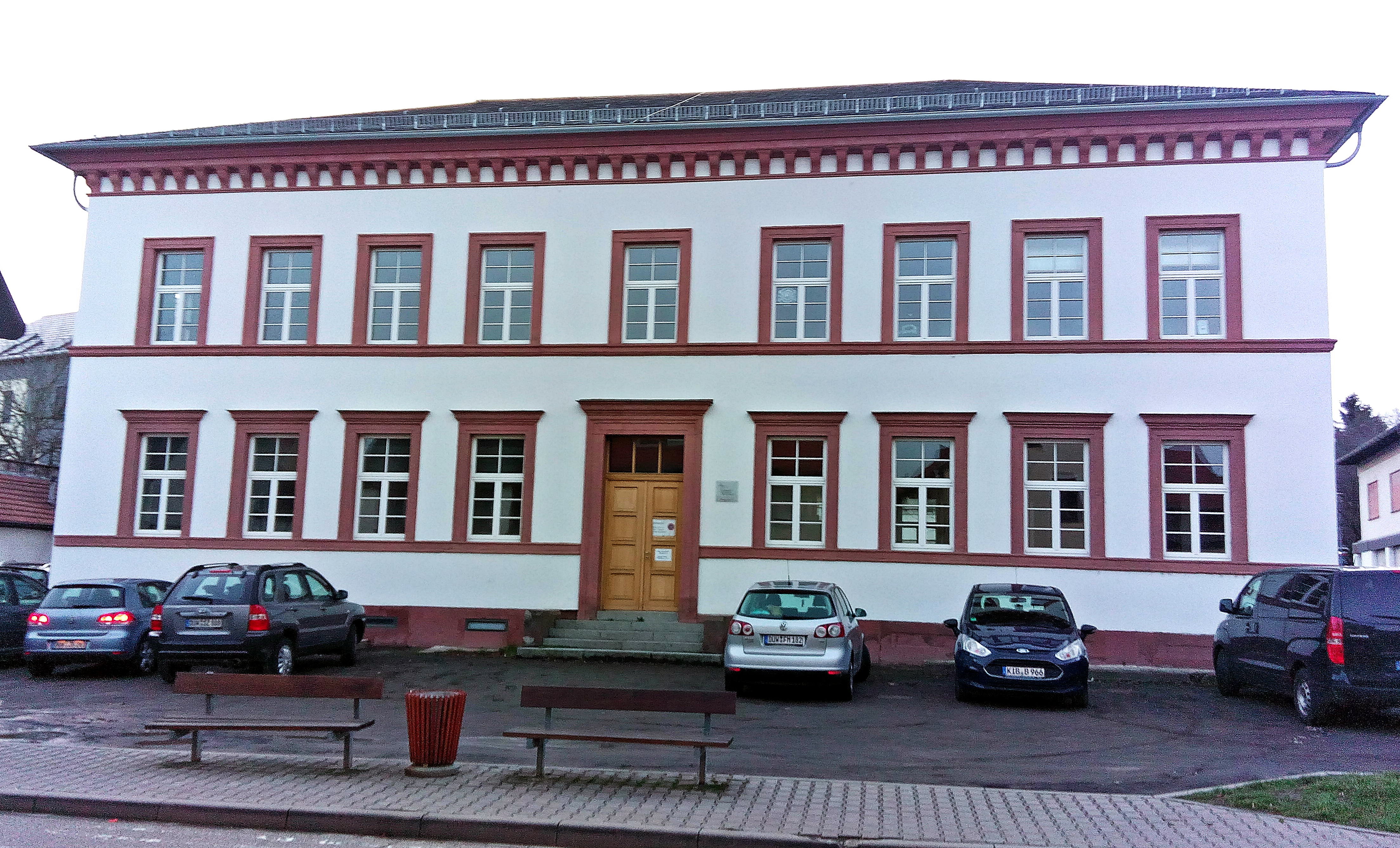 Alte Lateinschule, Grünstadt, Neugasse 17